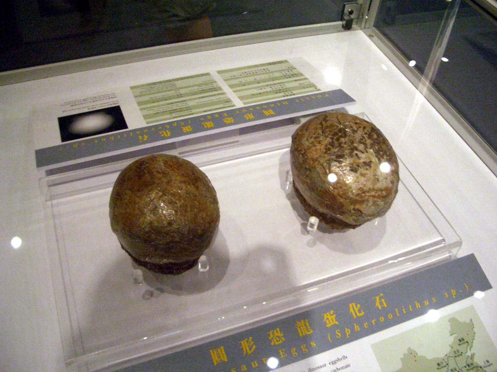 Fossil eggs of the late Cretaceous ornithopod dinosaur Spheroolithus, the type genus of the Spheroolithidae - a parataxon or form taxon (based of egg shell anatomy) - of the group of the HadrosauroideaThe Paleobiology Database